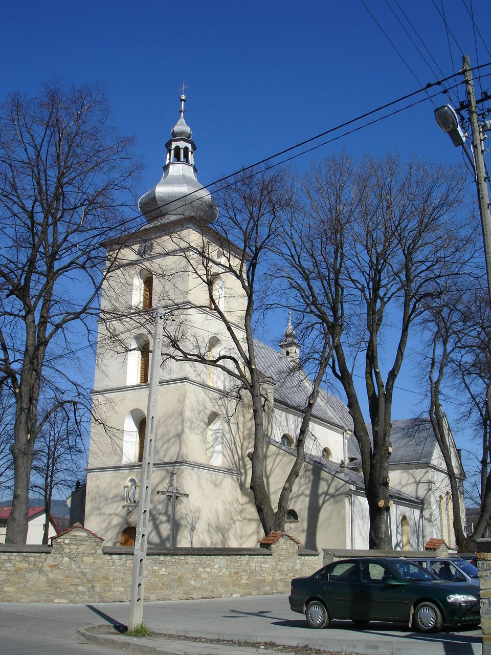 latin church in Łącko